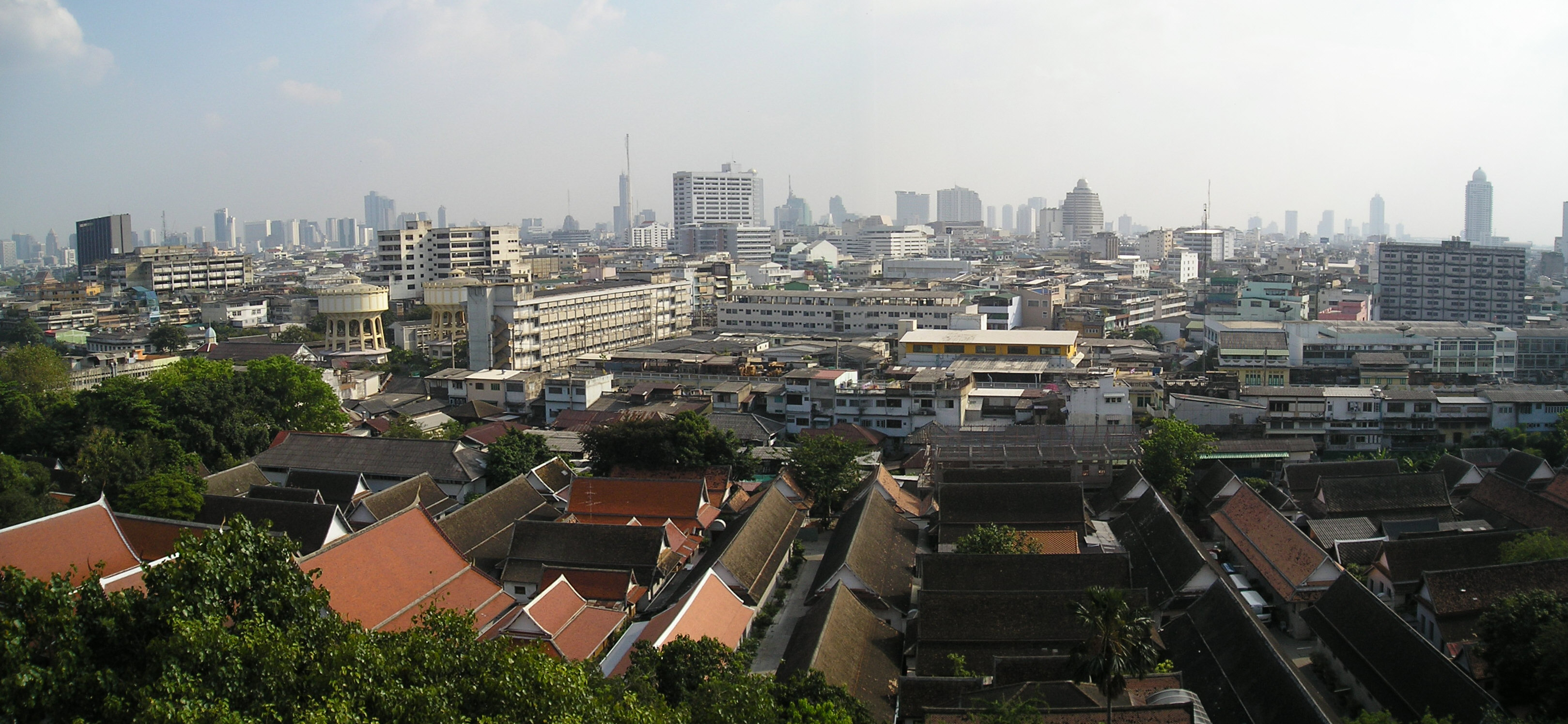 Panoramic views of Bangkok